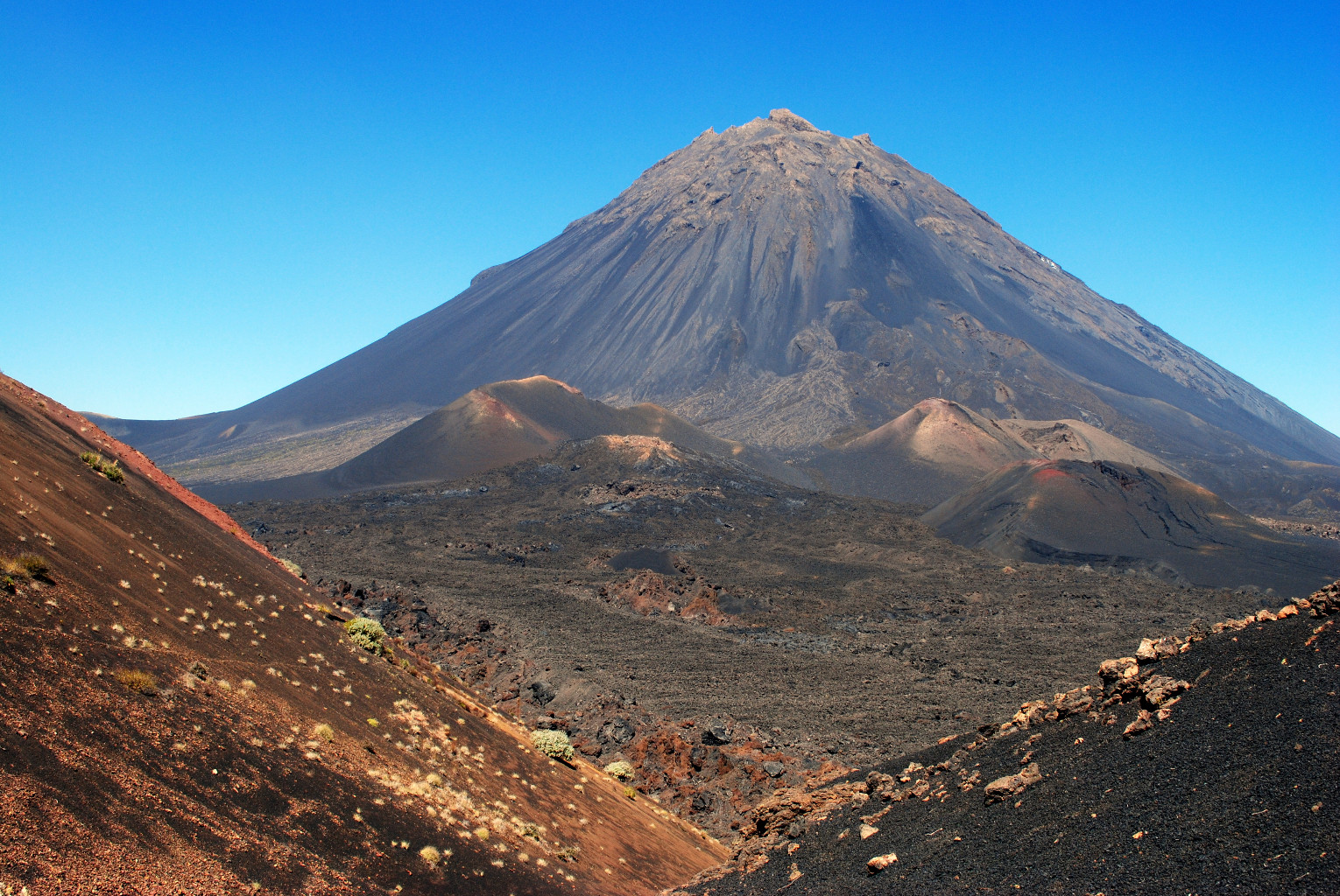 Pico do Fogo volcano in Cape Verde.